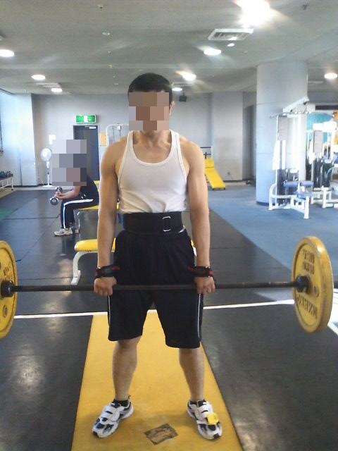 highclean